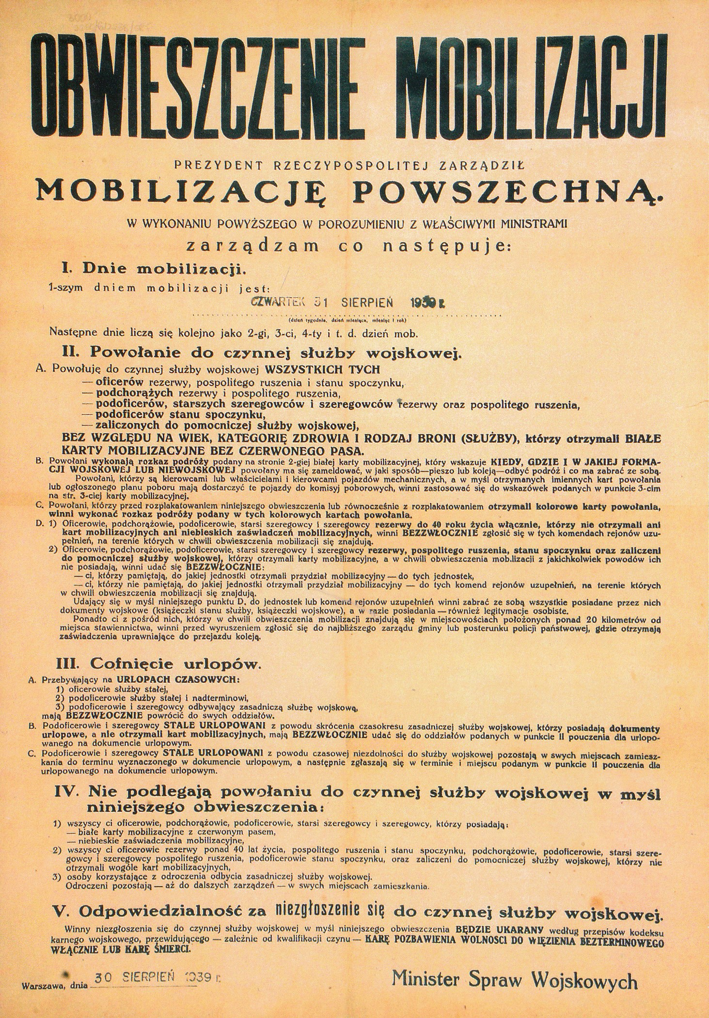 Mobilisation order of the Polish army, one day before the German invasion.